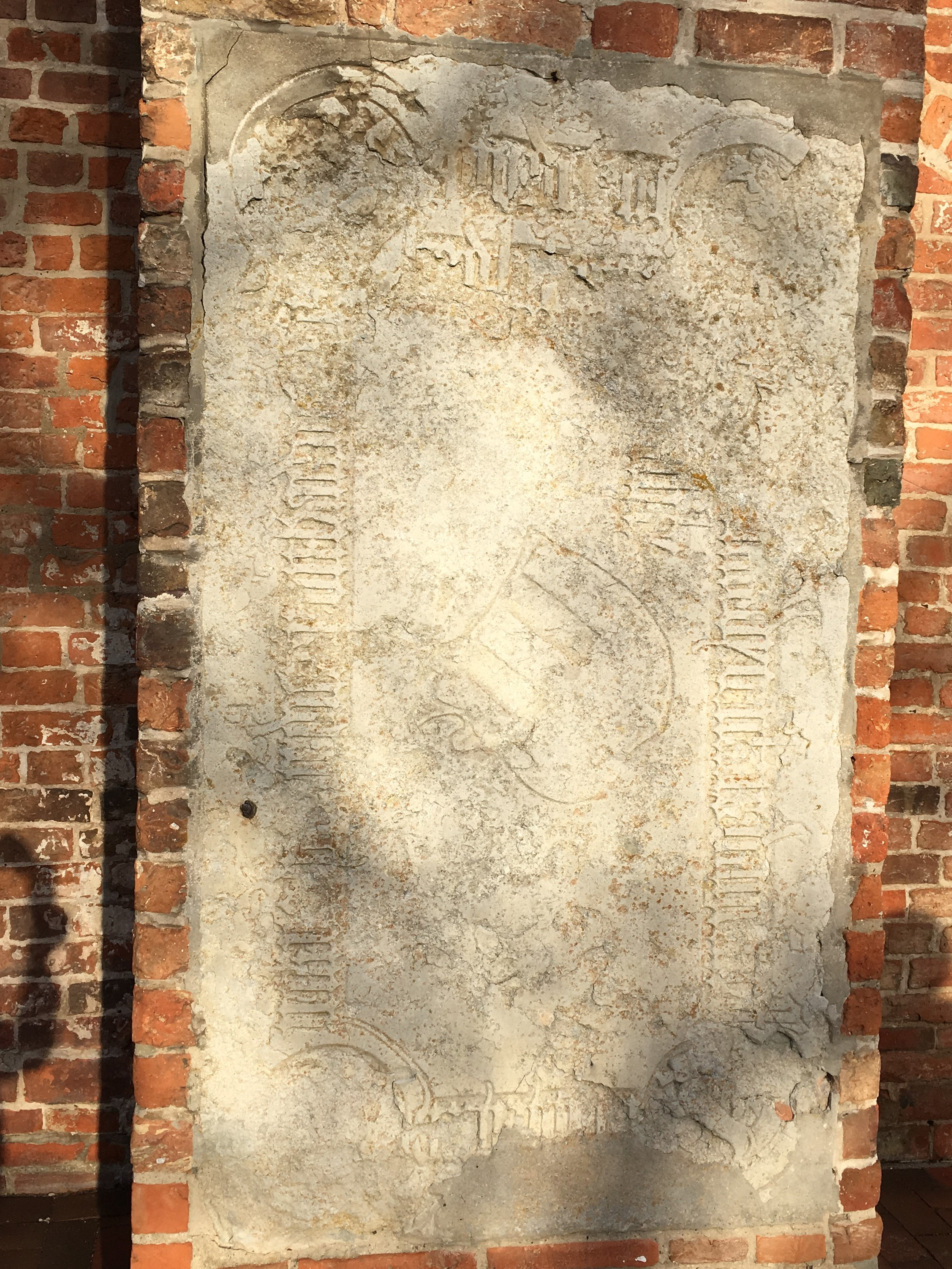 Ledger Stone of Heinrich von Hachede (d. 1473) in Cismar.